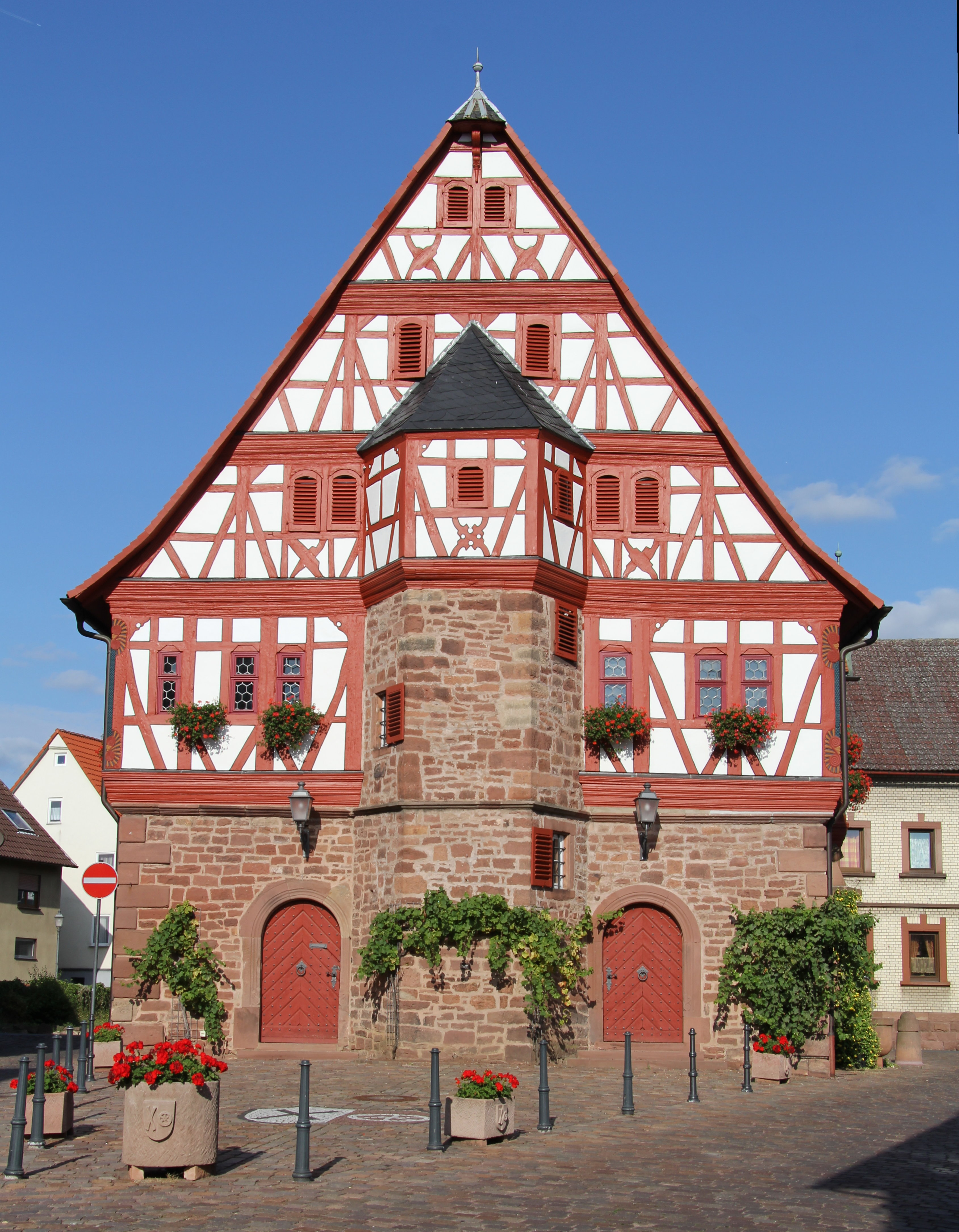 Historical town hall of Großheubach, Bavaria, Germany